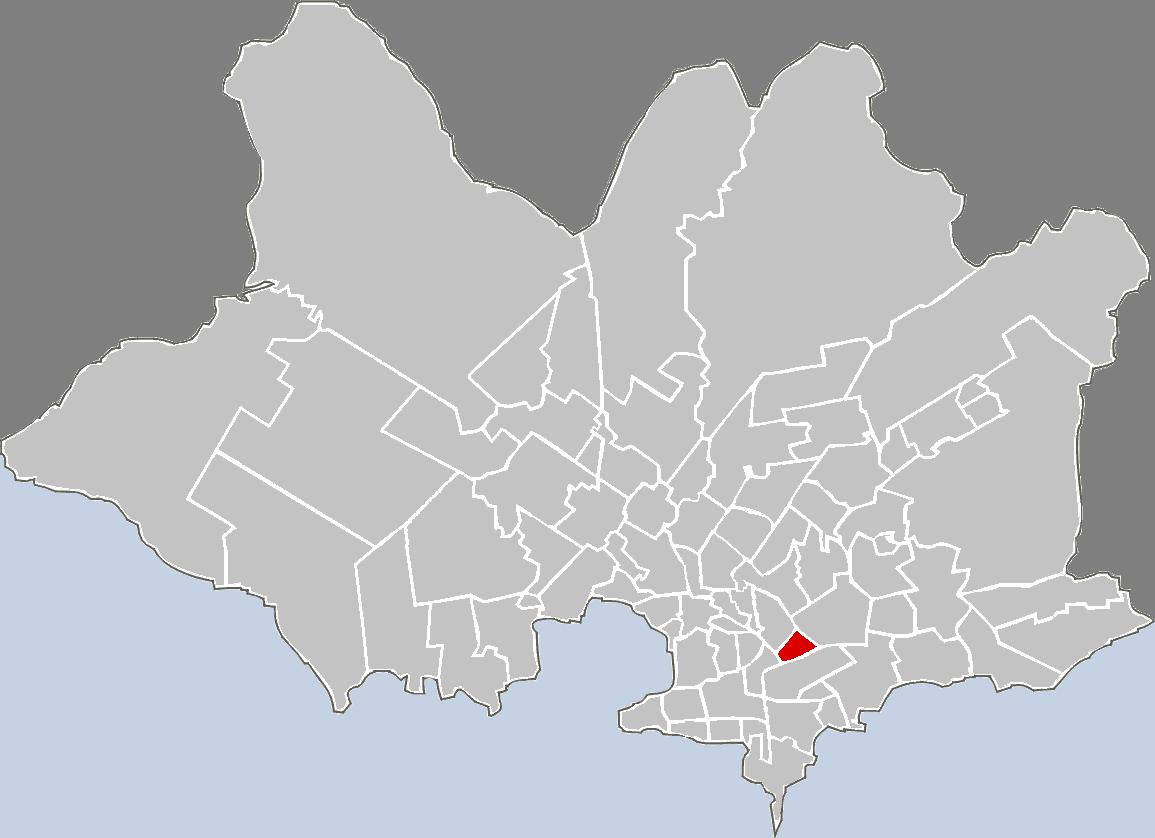 Map highlighting the given barrio in Montevideo.